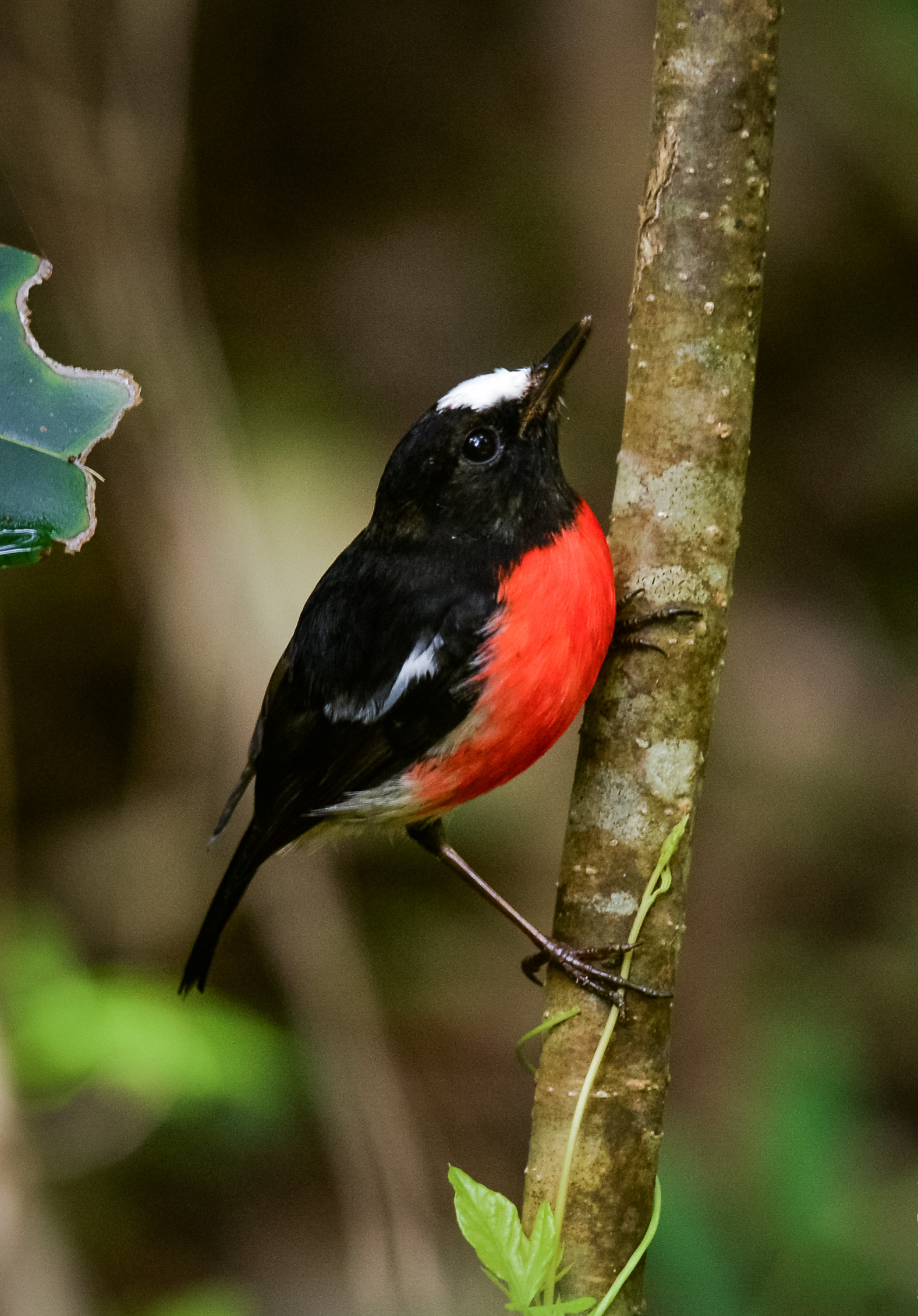 Pacific Robin (Petroica multicolor) in the Norfolk Island